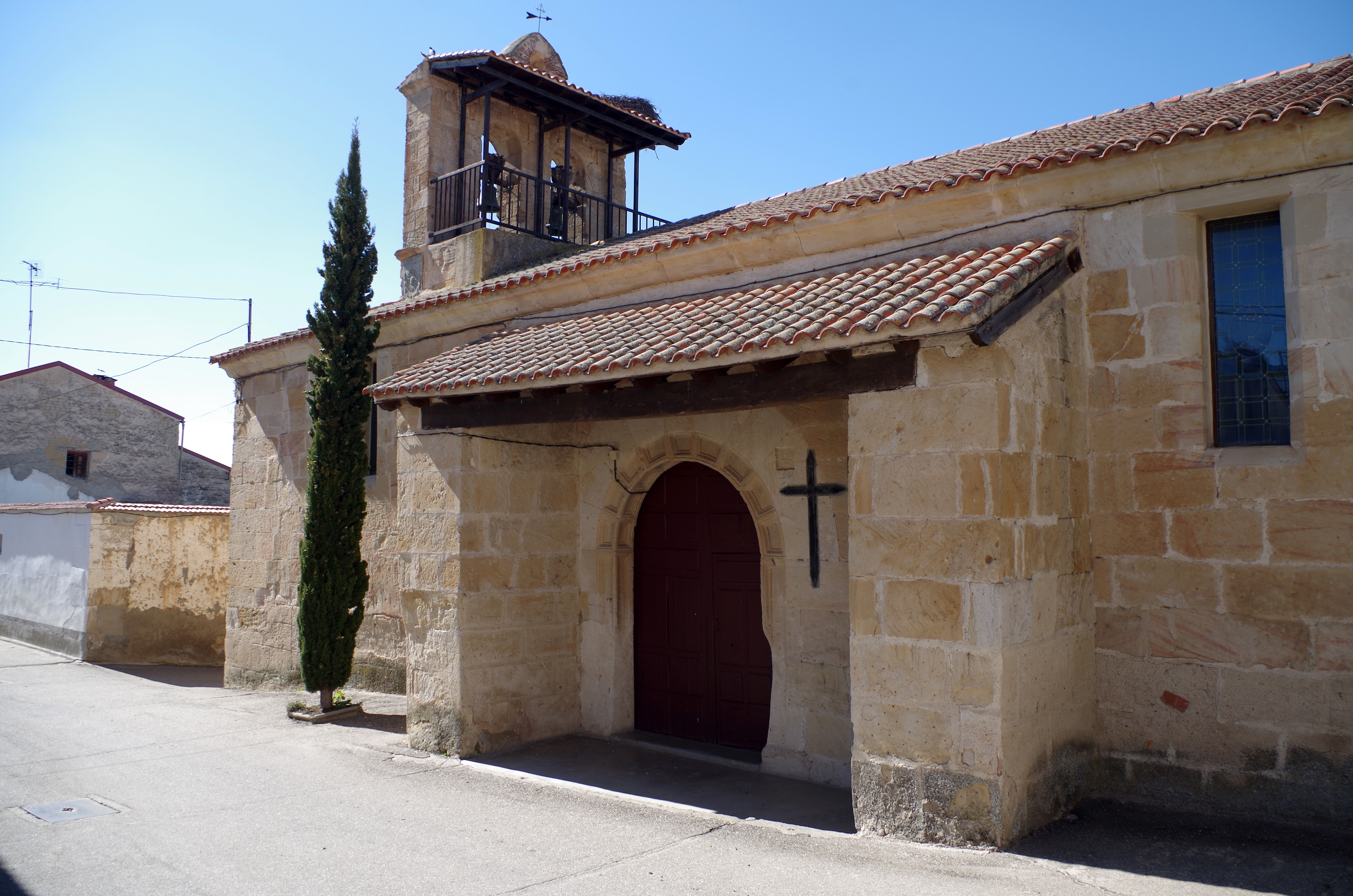 Church of Saint John the Baptist in Vallesa de la Guareña (Zamora, Spain).